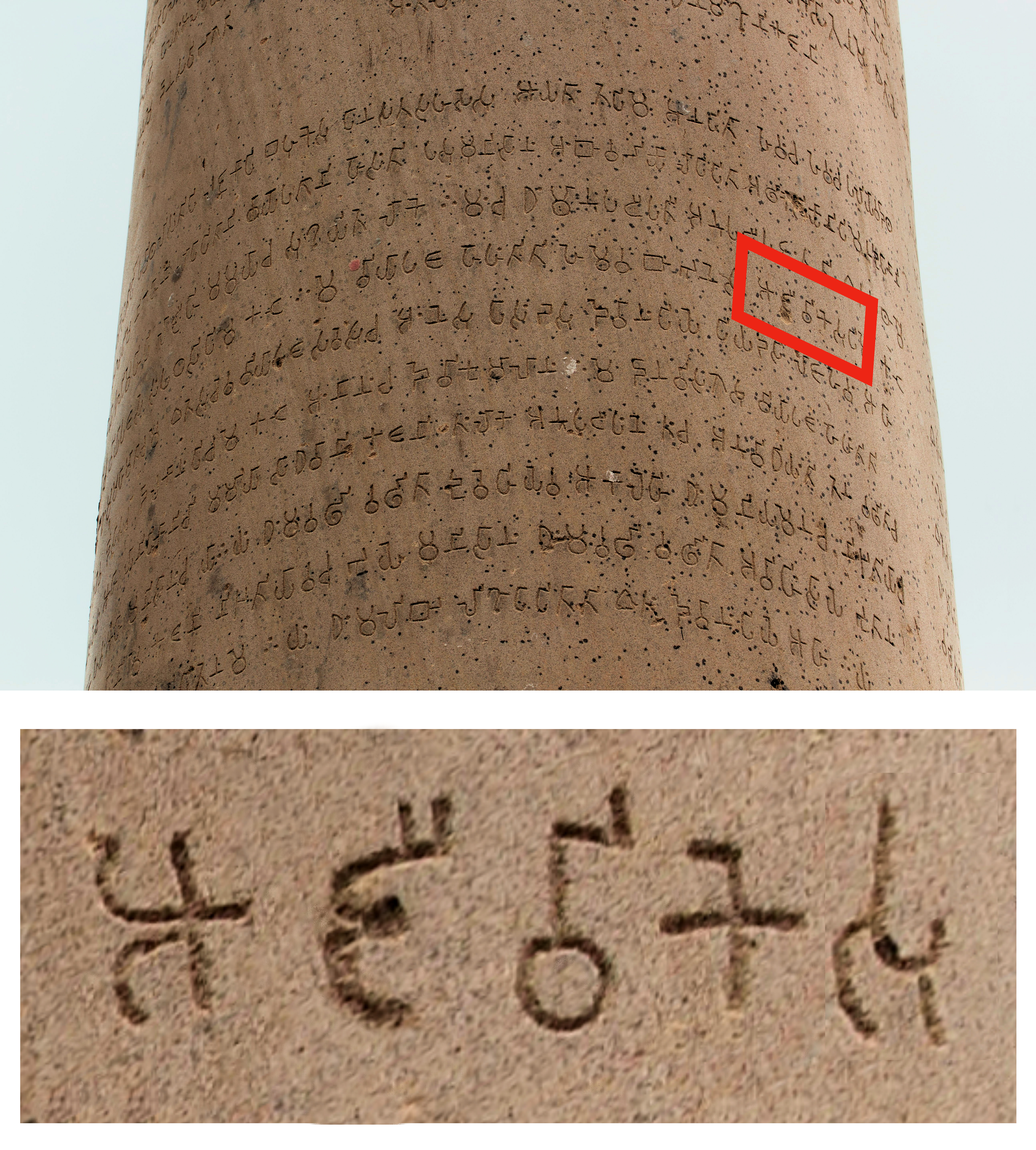 Ajivika inscription on the Ashoka pillar, Feroz Shah Kotla, Delhi